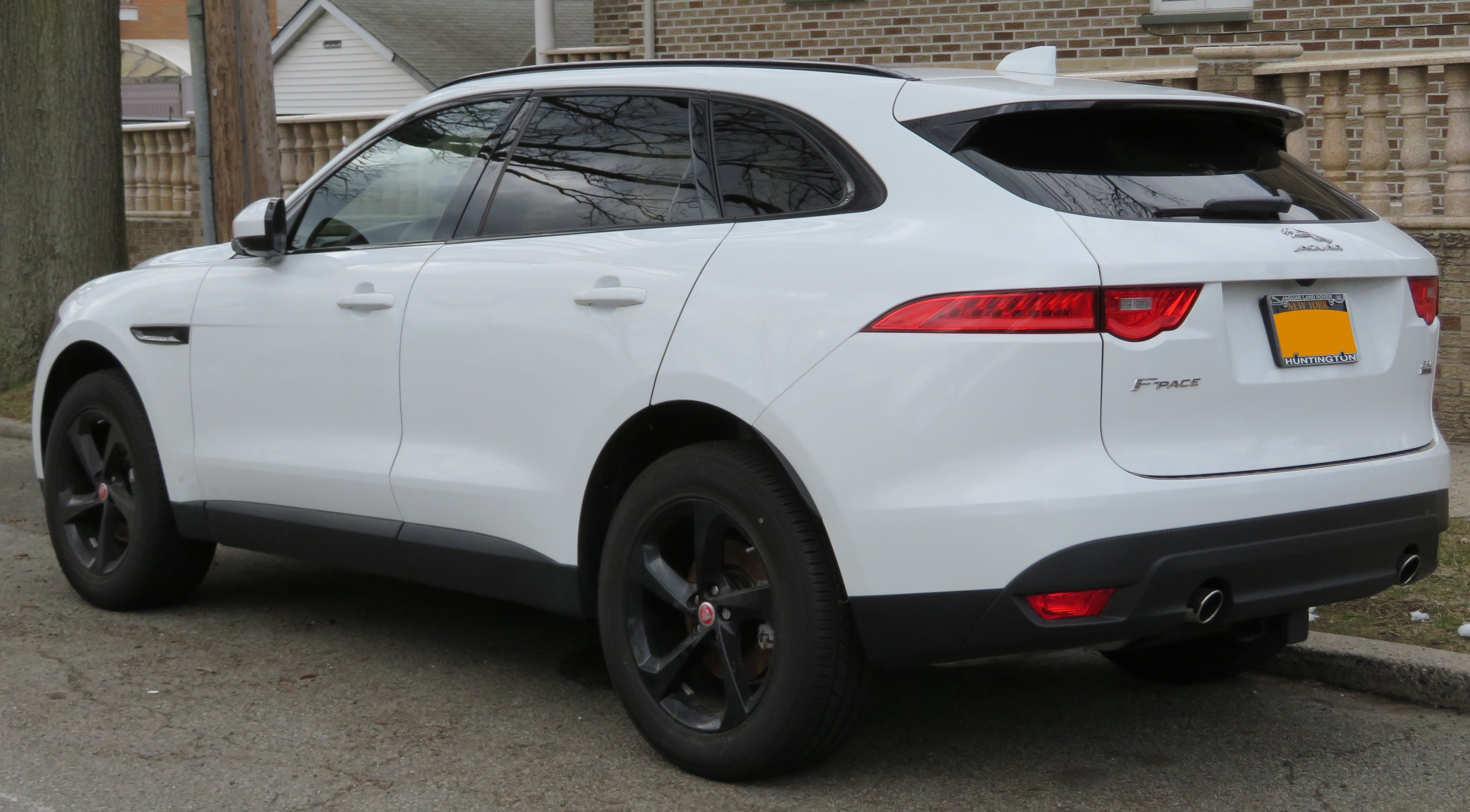 In Queens, New York